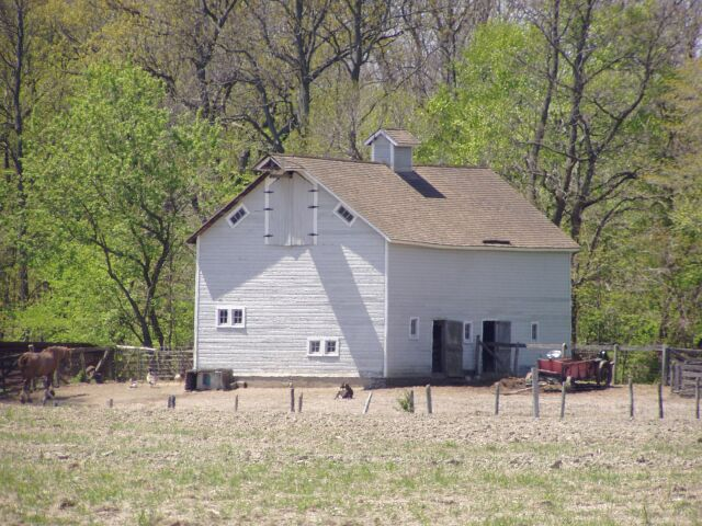 View of the Chellberg Barn at Indiana Dunes National Lakeshore, Porter, Indiana